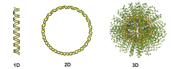 Adapted from Cutler, J. I., et al., Spherical Nucleic Acids. J Am Chem Soc 2012, 134 (3), 1376-1391.